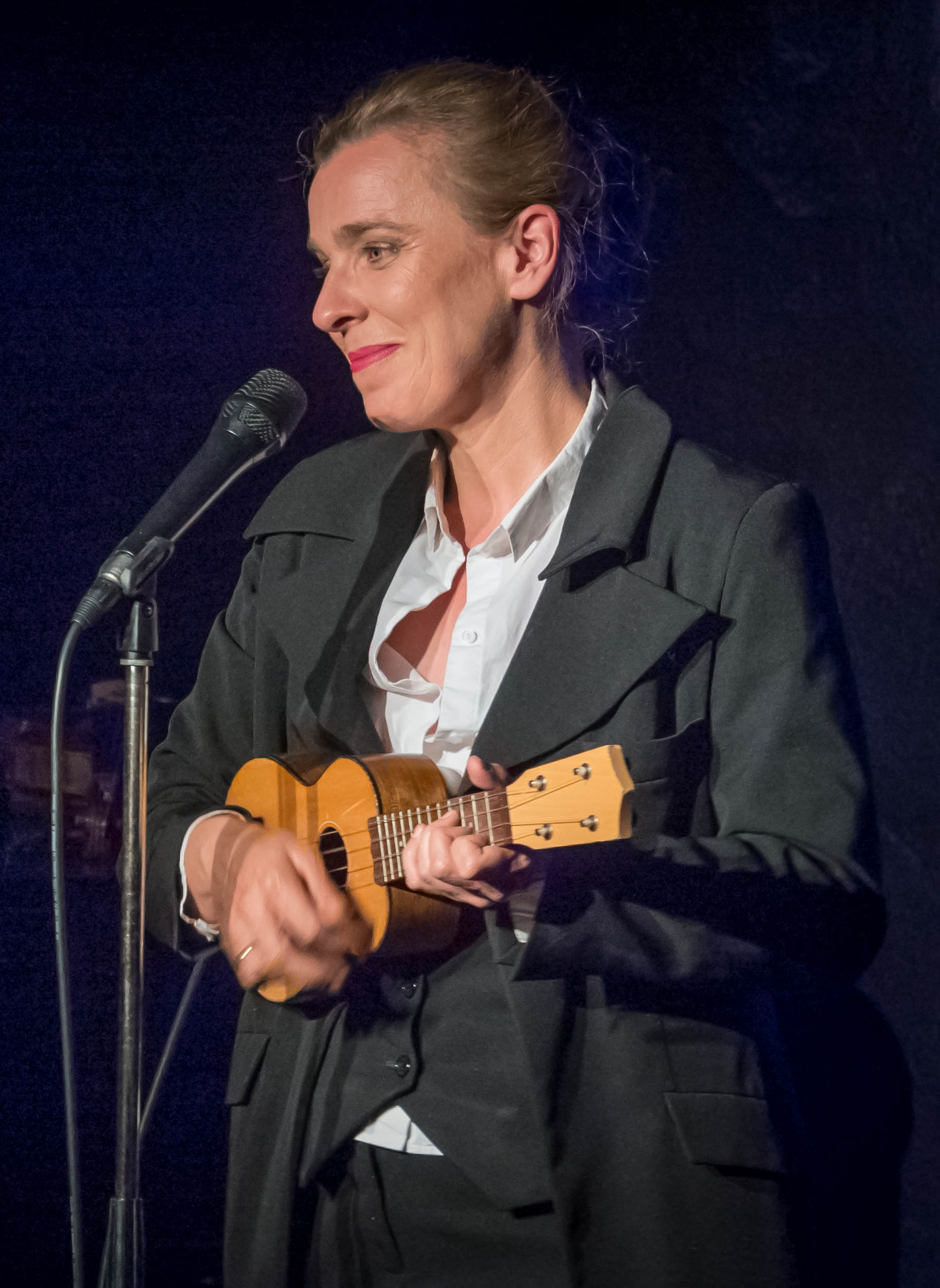 at Kleinkunstkreis Donaueschingen, Germany